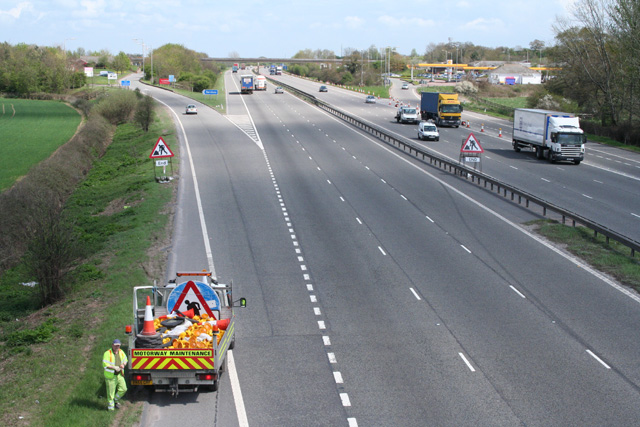 Trull: the M5 at Taunton Deane Services